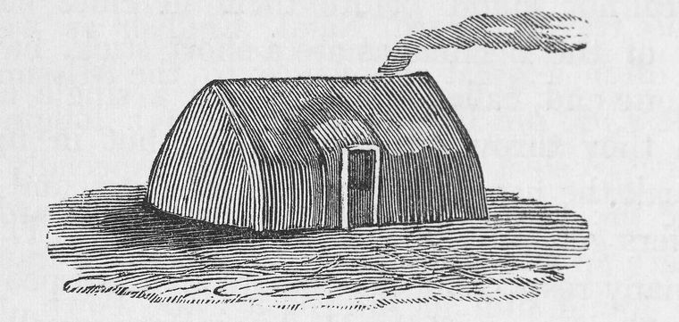 Bron: In: A narrative of a visit to the Mauritius and South Africa. (published 1844) Library Division: Schomburg Center for Research in Black Culture / Manuscripts, Archives and Rare Books Division Item/Page/Plate Number: pg. 358 Specific Material Type: Printed text Digital Image ID: 1247192 Digital Record ID: 210085 NYPL Call Number: Sc Rare 916.8-B